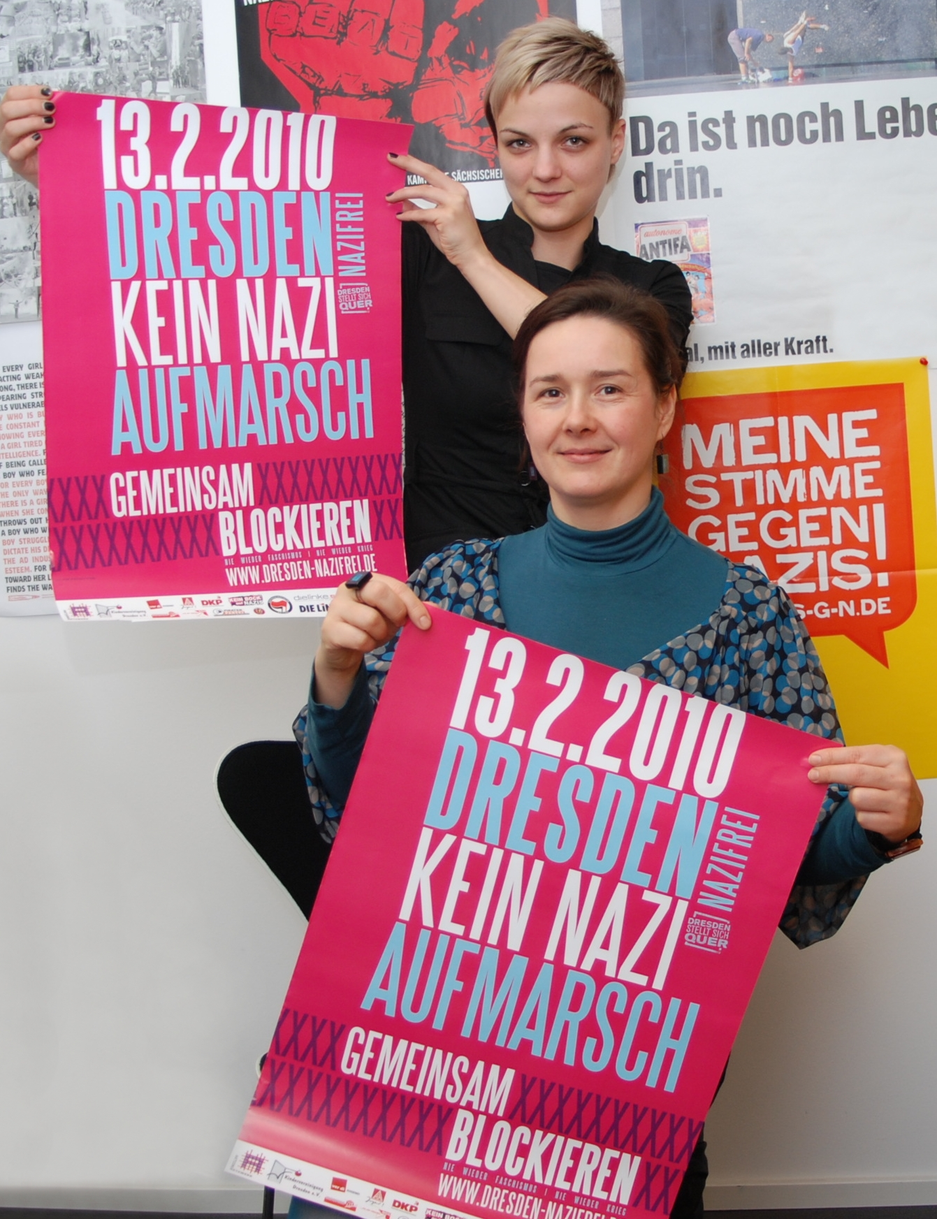 Freya-Maria Klinger and Heike Werner (in the foreground)